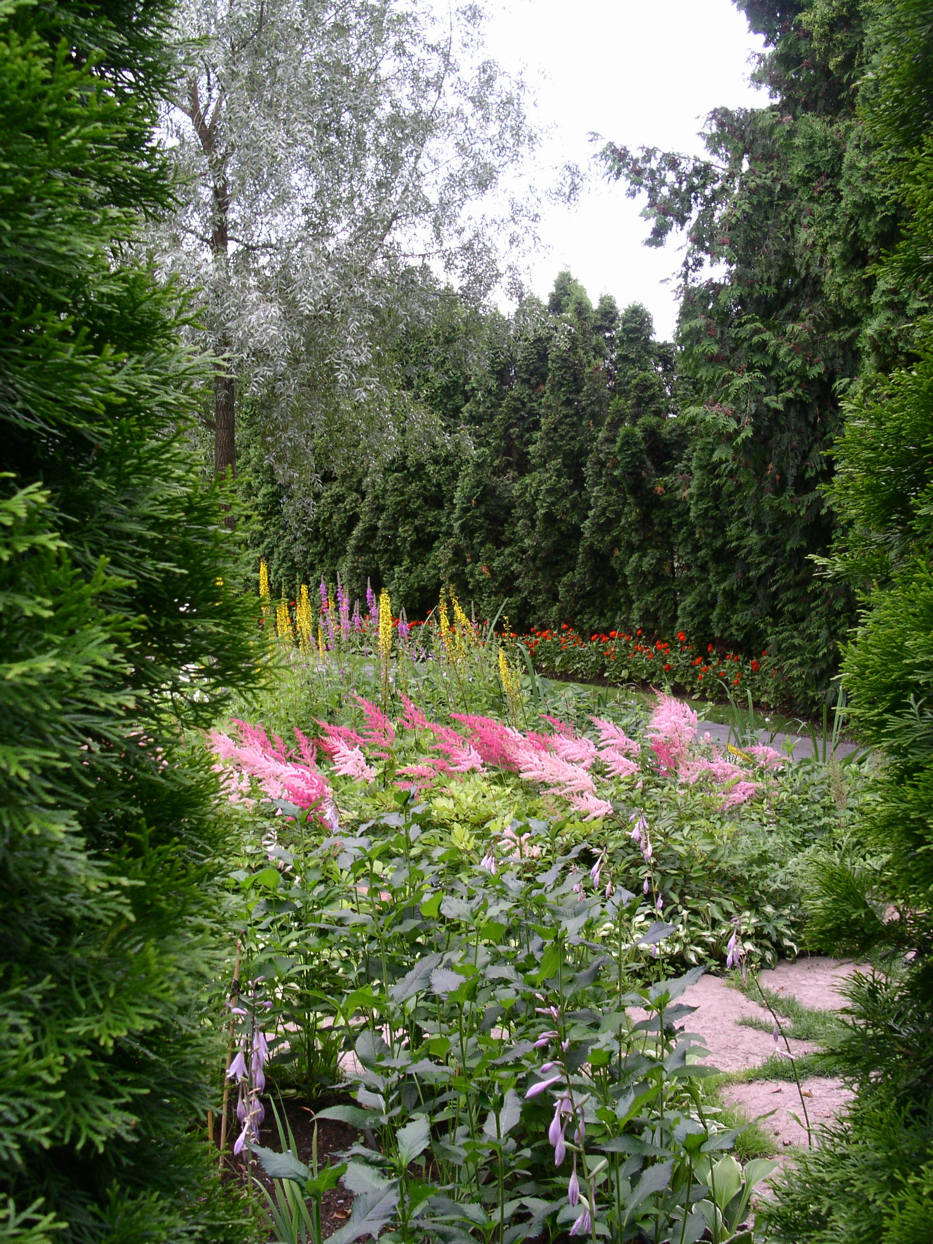 Marabou Park, Sundbyberg, Sweden